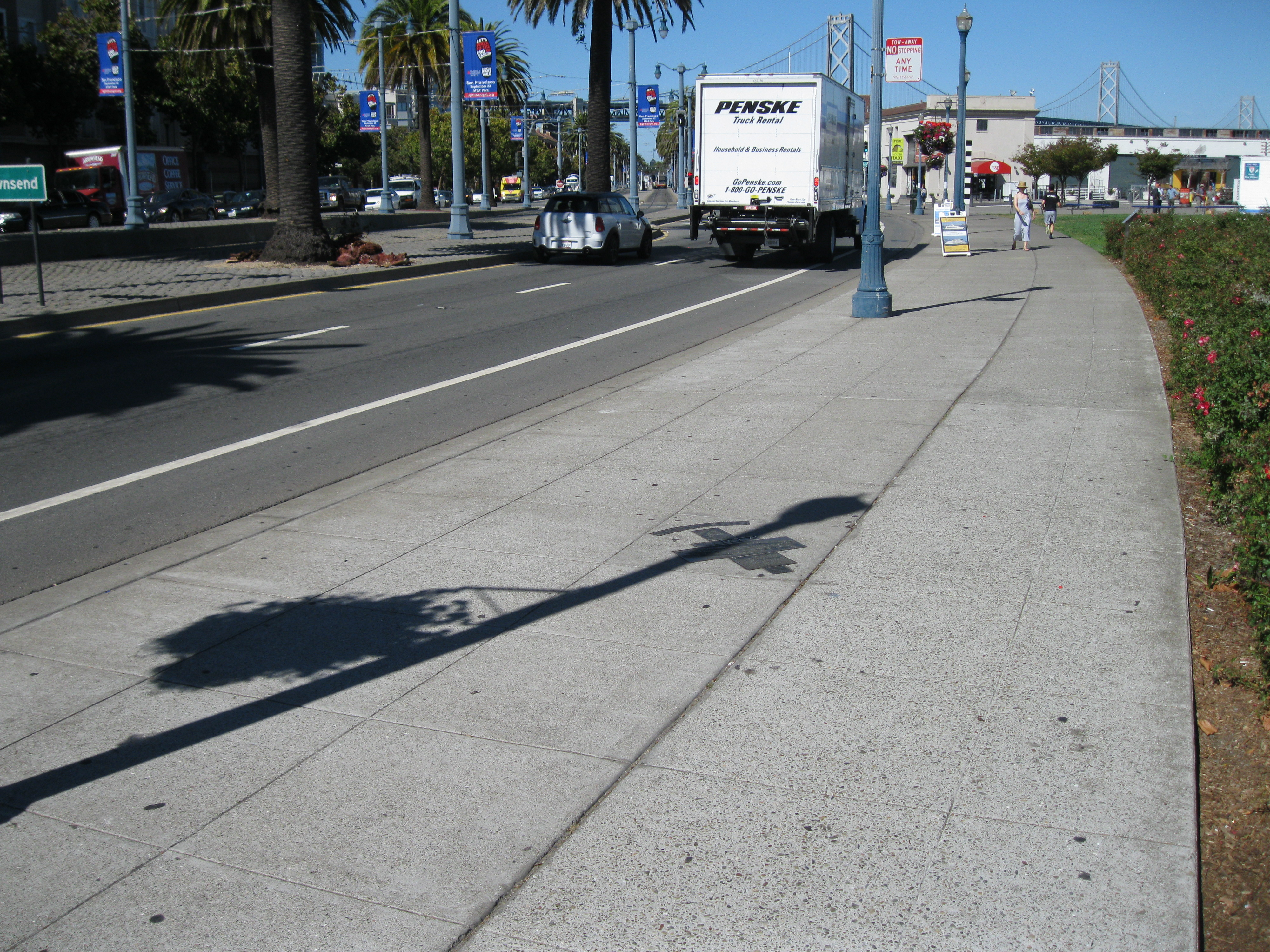 The site of The Lydia, a whaling ship below King Street in San Francisco. The exact spot is marked by a plaque on the sidewalk.